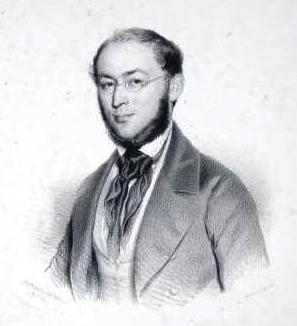 Portrait of the Austrian composer Franz von Suppé (1819–1895)